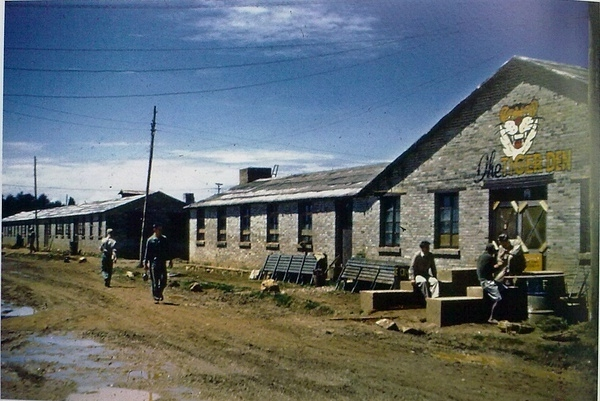 the Tiger Den (headquater of Flying Tigers)